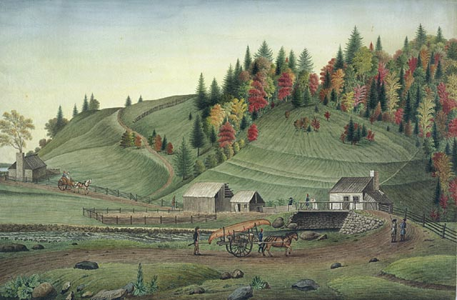 A View of the Bridge on the River La Puce near Quebec in Canada, Taken in 1790, watercolour over graphite on laid paper, 34.1 x 51.5 cm National Gallery of Canada (no. 6278)